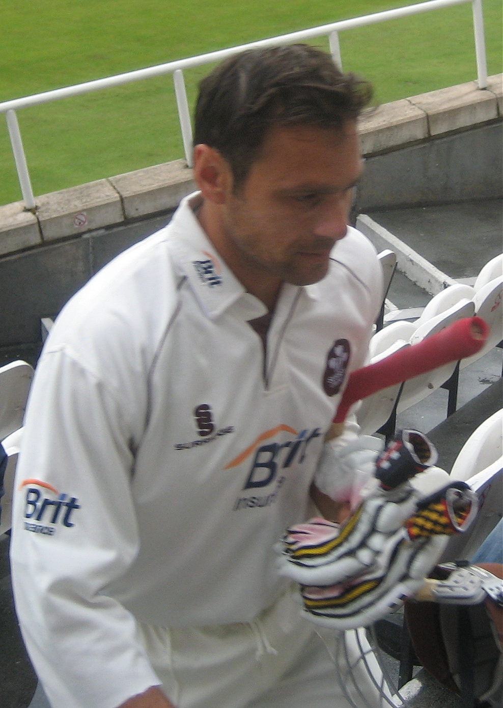 Cropped and slightly sharpened portion of Image:Cricket, Oval, 26th April 2007 007.jpg. That original was taken by William Samuel on 26th April 2007, at the Oval, London, and released by its creator as public domain. My edit of it, in this picture, is also released by me as PD.